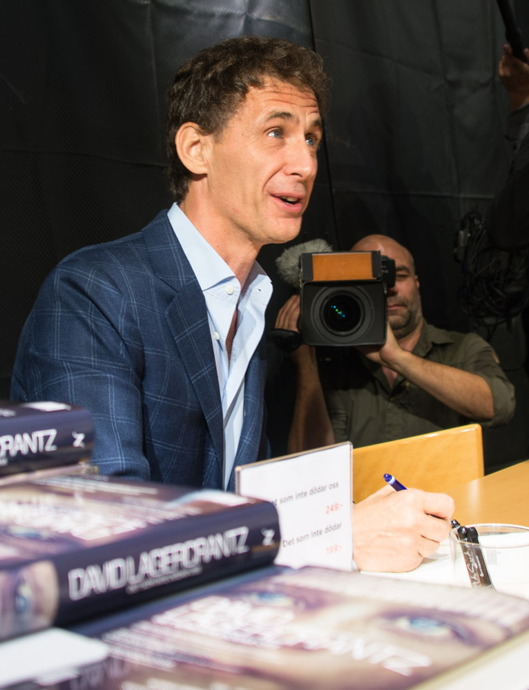 David Lagercrantz, in Stockholm shortly after midnight on Aug. 27, 2015, at the world premiere of his book "The Girl in the Spider's Web".